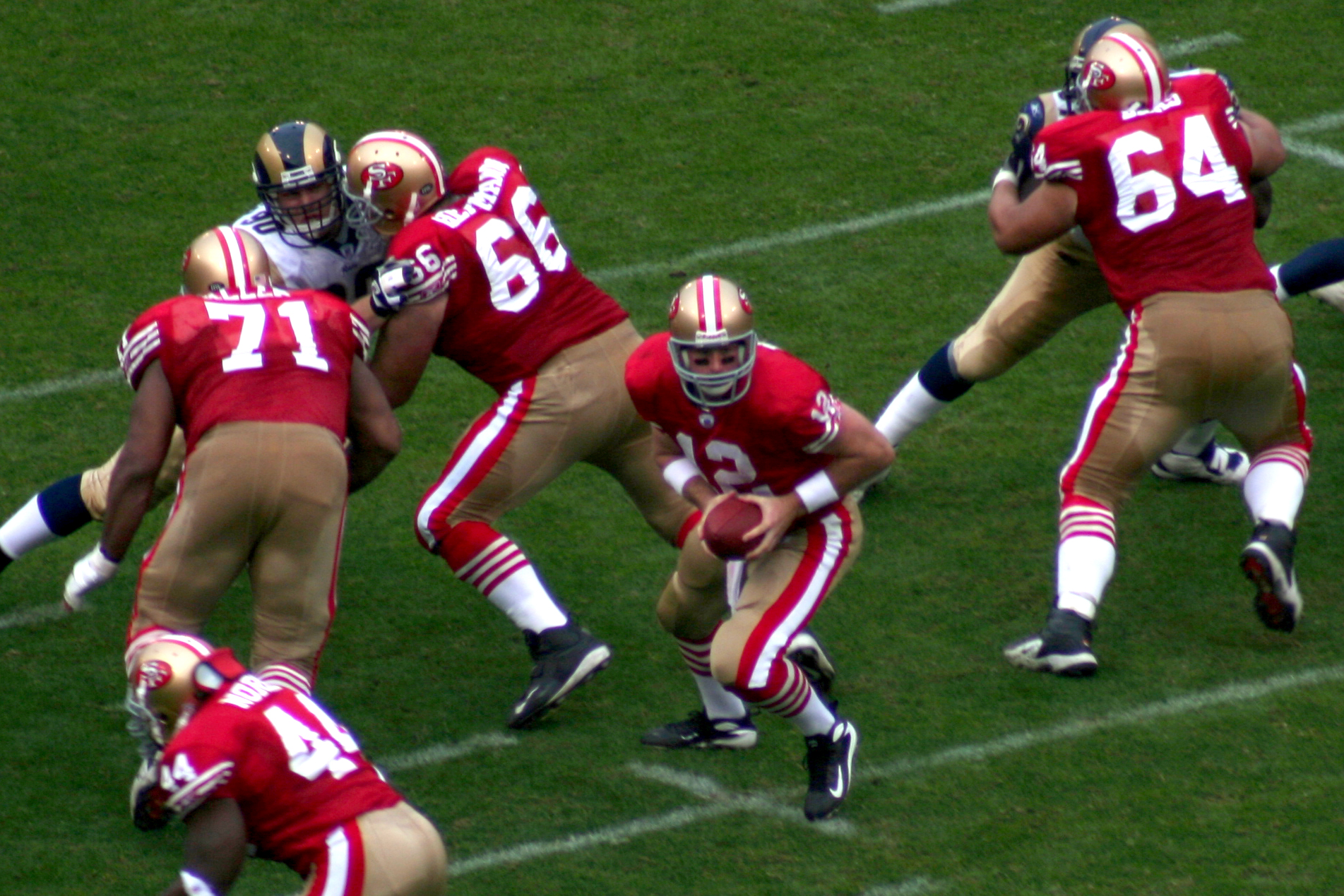 Trent Dilfer (#12) taking the snap from Eric Heitman (#66). David Baas (#64), Moran Norris (#44) and Larry Allen (#71) are also visible.